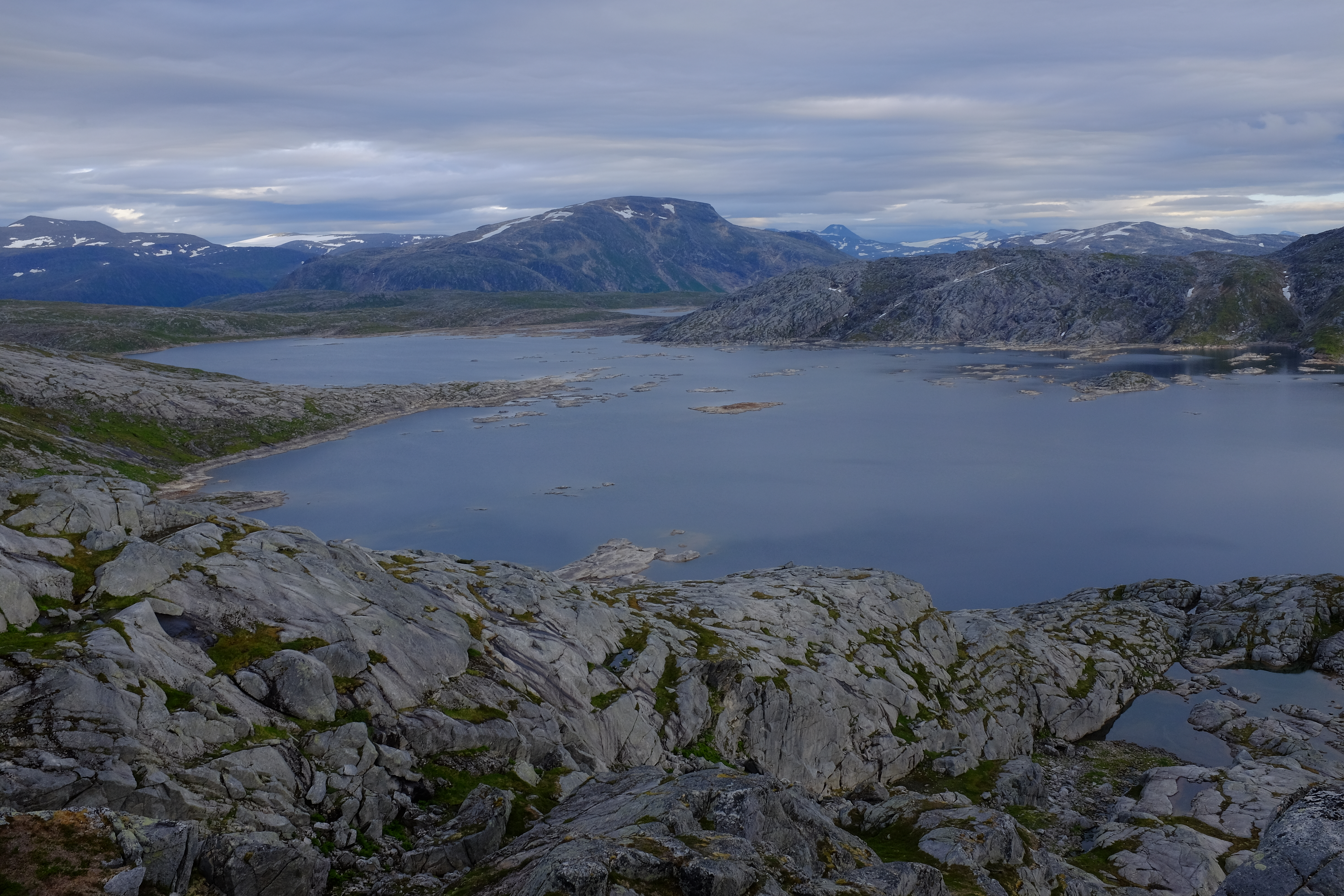 Overview of Litle Sokumvatnet and Namnlausvatnet lakes, Gildeskål, Nordland, Norway. Because of the dam, the two lakes have grown together to become one lake. Nevertheless, the old names are retained.